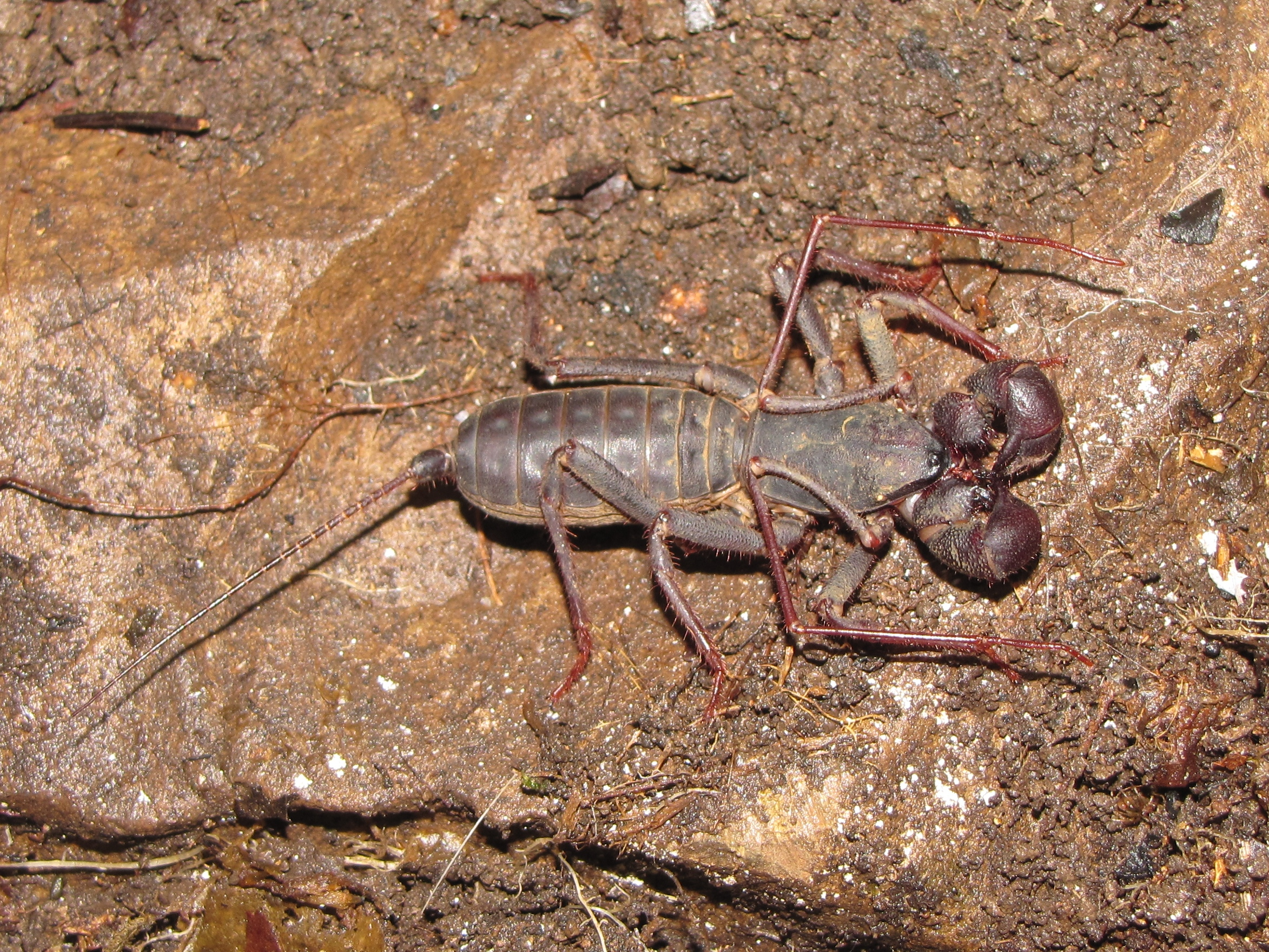 Uropigio in the region of Savegre, Costa Rica